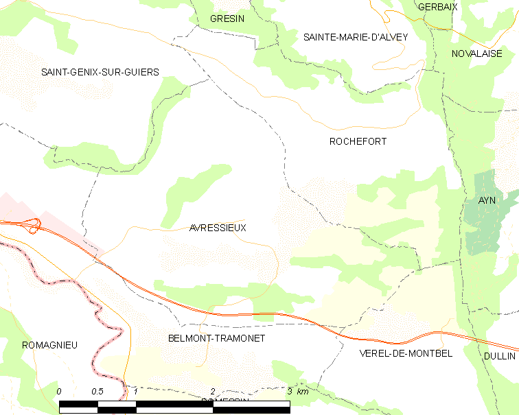 Map of French municipality